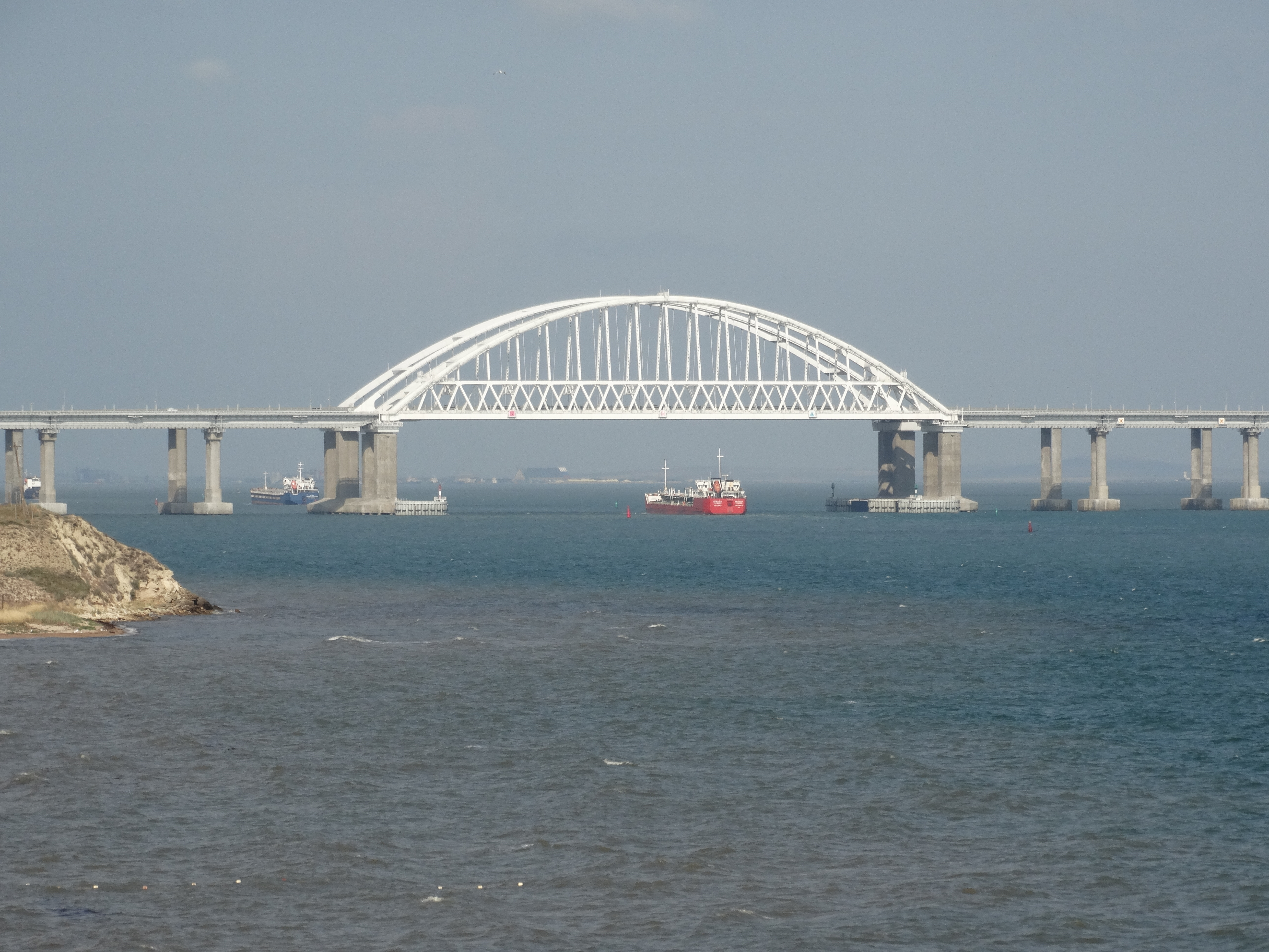 Crimea Bridge